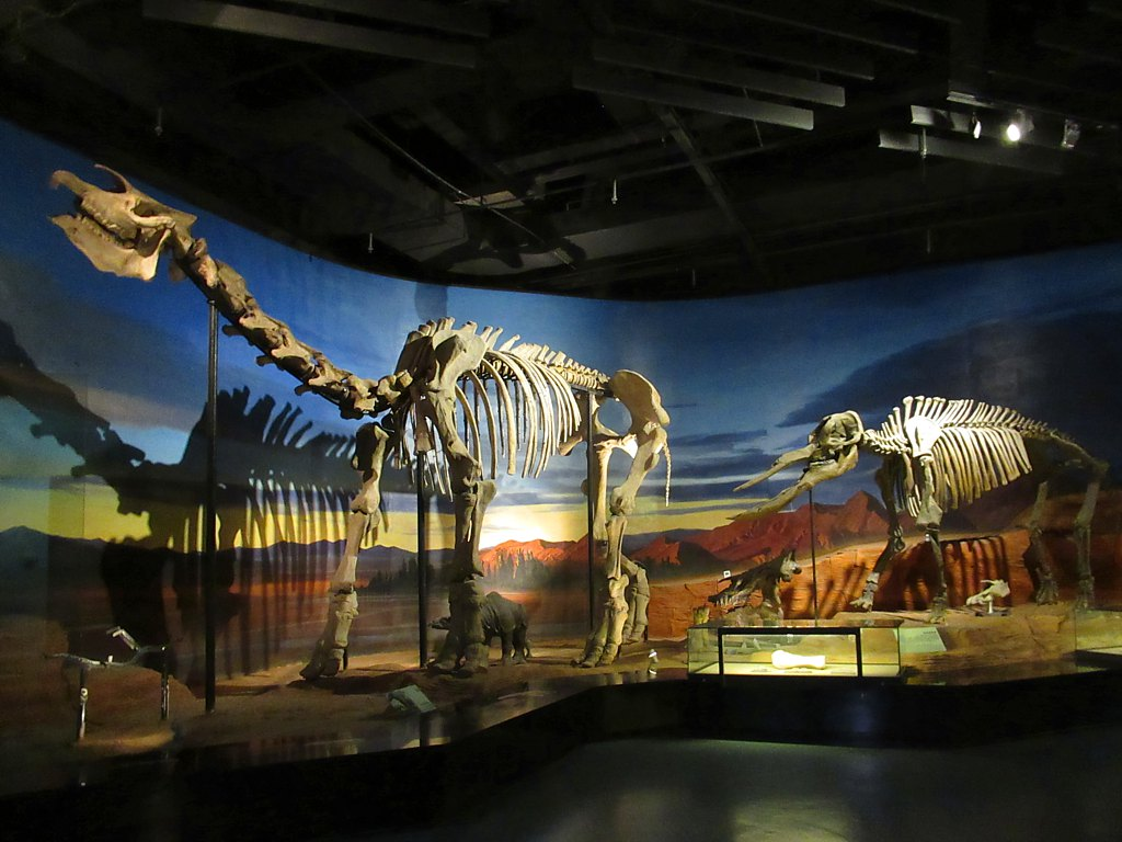 The Turpan Regional Museum in Turpan, Xinjiang, China, has an important palaeontology section. The skeleton on the left is of a Paraceratherium lepdium (possibly a synonym of Dzungariotherium turfanensis).